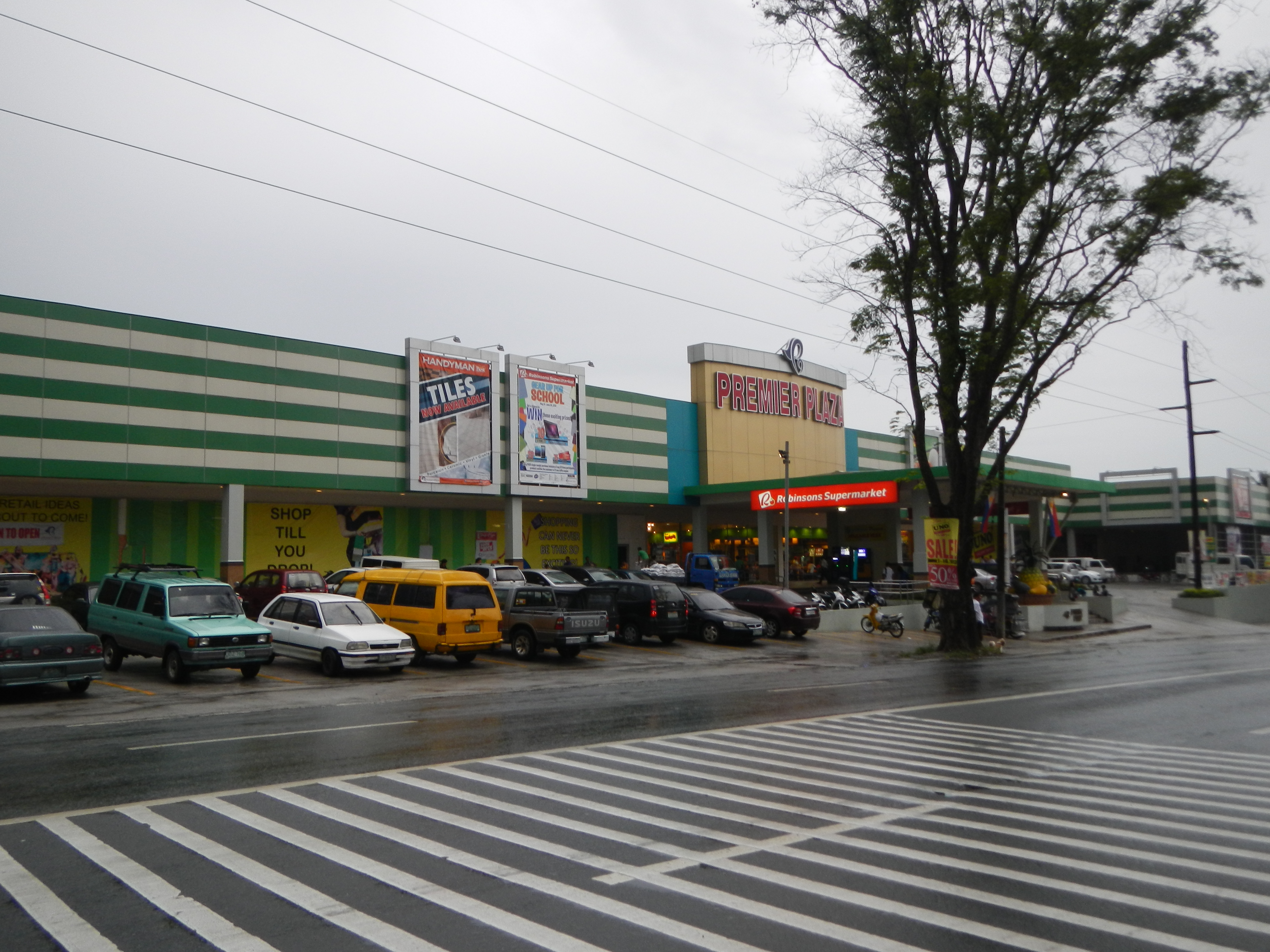 Premier Plaza Mall, Silang, Cavite[1]Robinsons Supermarket - is a supermarket chain in the Philippines, a division of Robinsons Retail Group, a subsidiary of J.G. Summit Holdings. It is a competitor of several supermarket chains in the Philippines including SM, Rustans, Ever and others. --- Silang, Cavite[2] The Municipality of Silang (Filipino: Bayan ng Silang) is a first class landlocked municipality in the province of Cavite, Philippines. According to the 2010 census, it has a population of 213,490 people in an area of 209.4 square kilometers (80.8 sq mi). Silang is located in the eastern section of Cavite. This is the location of Philippine National Police Academy and PDEA Academy.